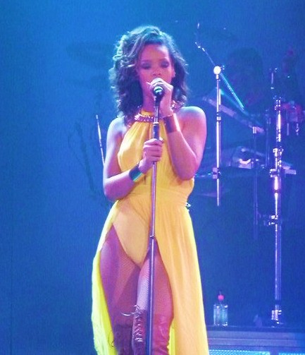 Rihanna singing Unfaithful at the Liverpool Echo Arena on her Loud Tour, 7th October 2011.